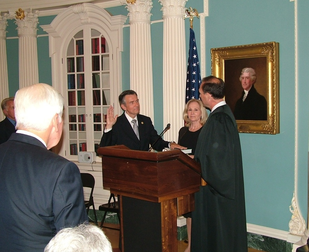 U.S. Department of State Official Photograph of Douglas Kmiec